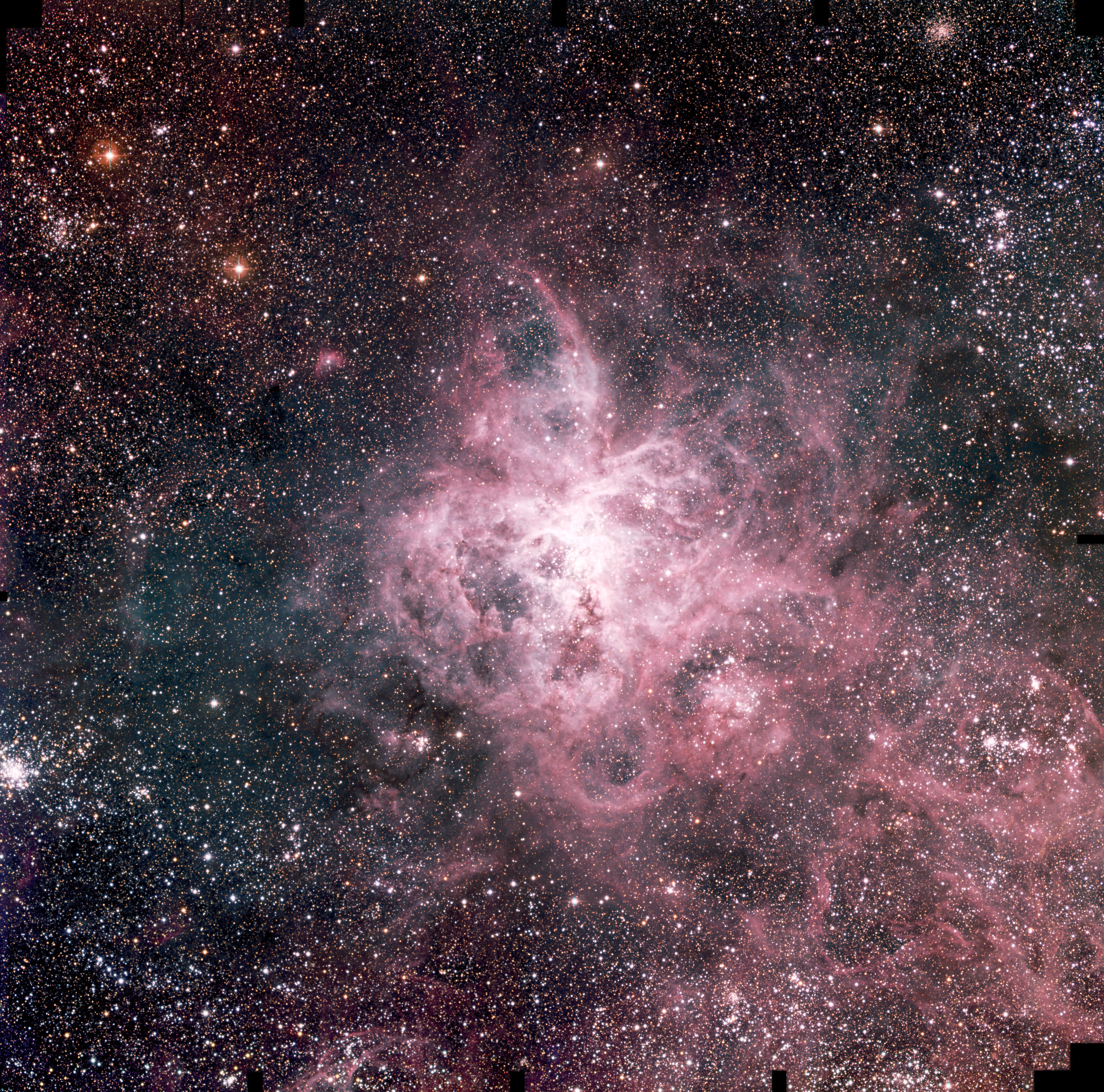 The LMC is a satellite galaxy to our Milky Way system, located in the southern constellation Dorado (The Swordfish) at a distance of approximately 170,000 light-years. The image is based on 15 exposures in the visual part of the spectrum with the Wide Field Imager (WFI) camera on the 2.2-m MPG/ESO telescope at the La Silla Observatory. A number of small areas near the borders were not covered in all three colours and have been left black. Six smaller fields with particular objects from this photo are reproduced as PR Photos 14b-g/02. PR Photo 14a/02 was produced from 15 images that were obtained in September 2000 with the Wide-Field-Imager (WFI) at the 2.2-m MPG/ESO telescope. The images were exposed in the B-band (5 x 200 sec; wavelength 456 nm; Full-Width-Half-Maximum (FWHM) 99 nm; here rendered as blue), V-band (5 x 200 sec; 540 nm; 89 nm; green) and R-band (5 x 200 sec; 652 nm; 162 nm; red). The original pixel size is 0.238 arcsec. The photo shows the full field recorded in all three colours. It measures approximately 34 x 34 arcmin 2 ; North is up and East is left. The seeing was about 1.6 arcsec.